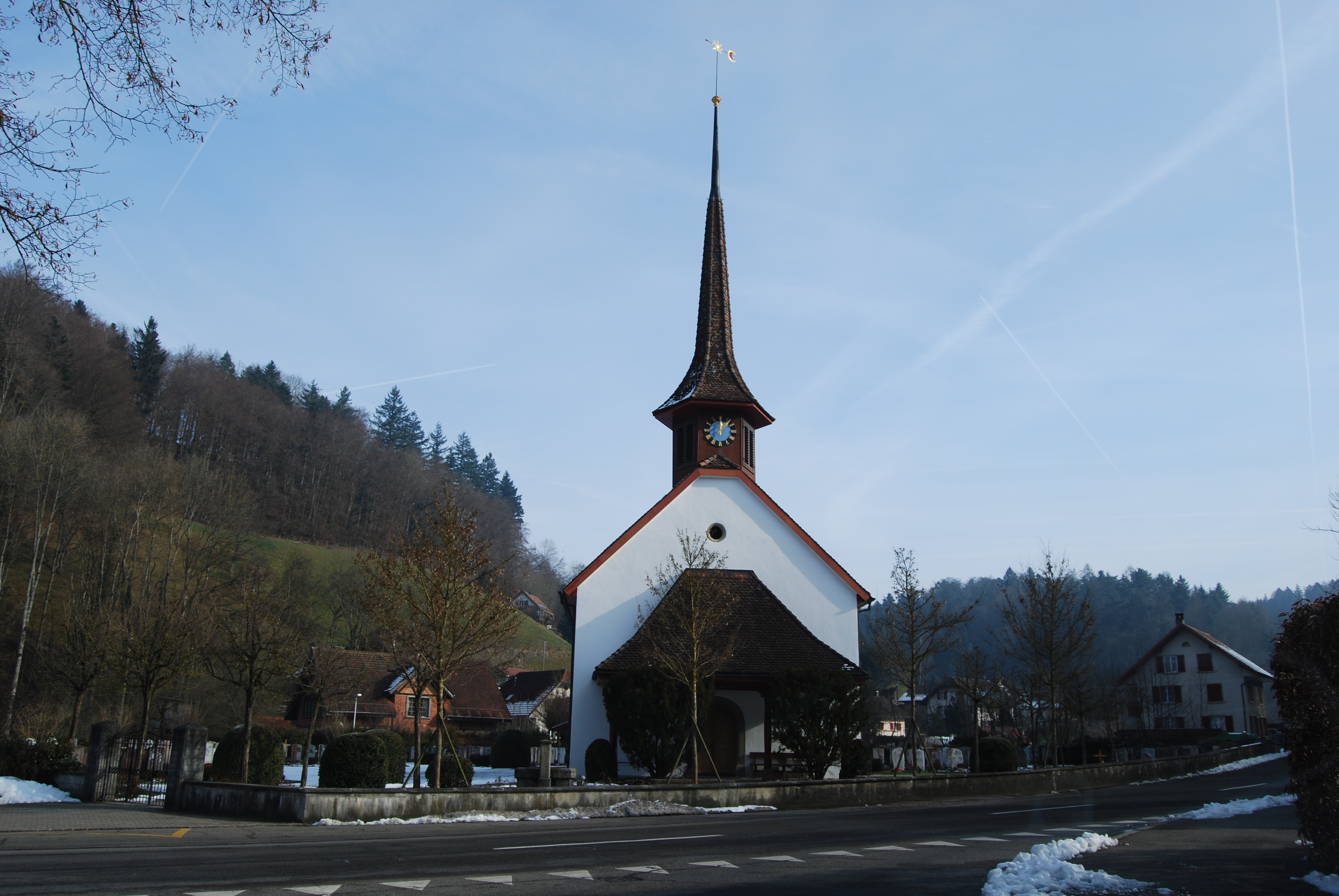 Church of Kirchrued, municipality of Schlossrued, canton of Aargau, SwitzerlandEsperanto: Preĝejo de Kirchrued, komunumo Schlossrued, Kantono Argovio, Svislando